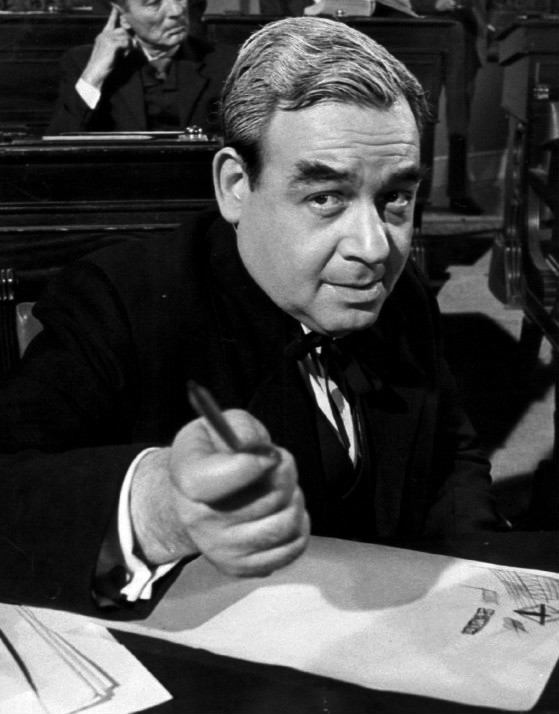 Publicity photo of Tom Bosley as Senator George W. Norris in the television anthology Profiles in Courage.